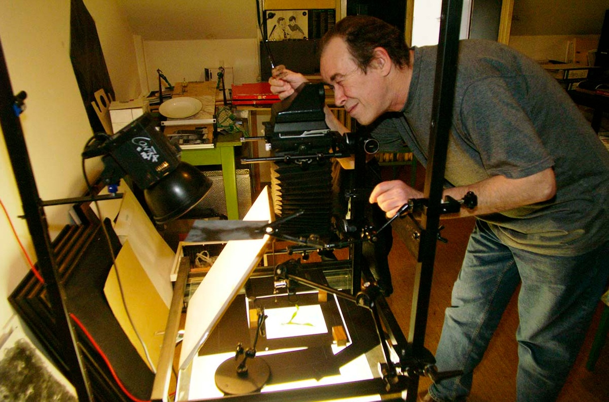 Jiří Stach při práci v ateliéru.